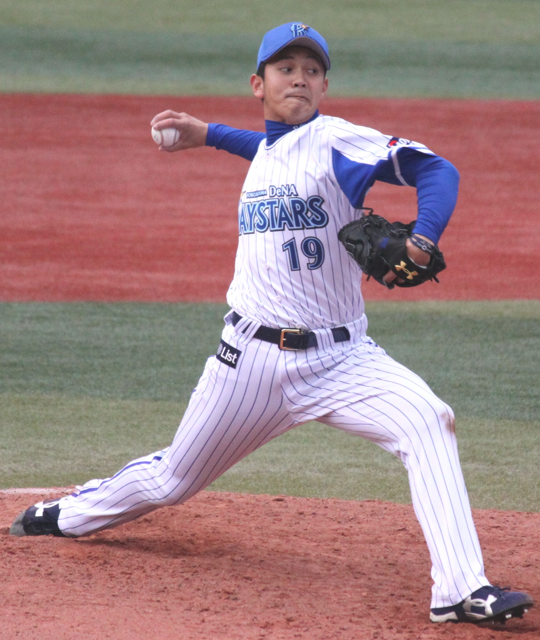 Yasuaki Yamasaki, pitcher of the Yokohama DeNA BayStars, at Yokohama Stadium.